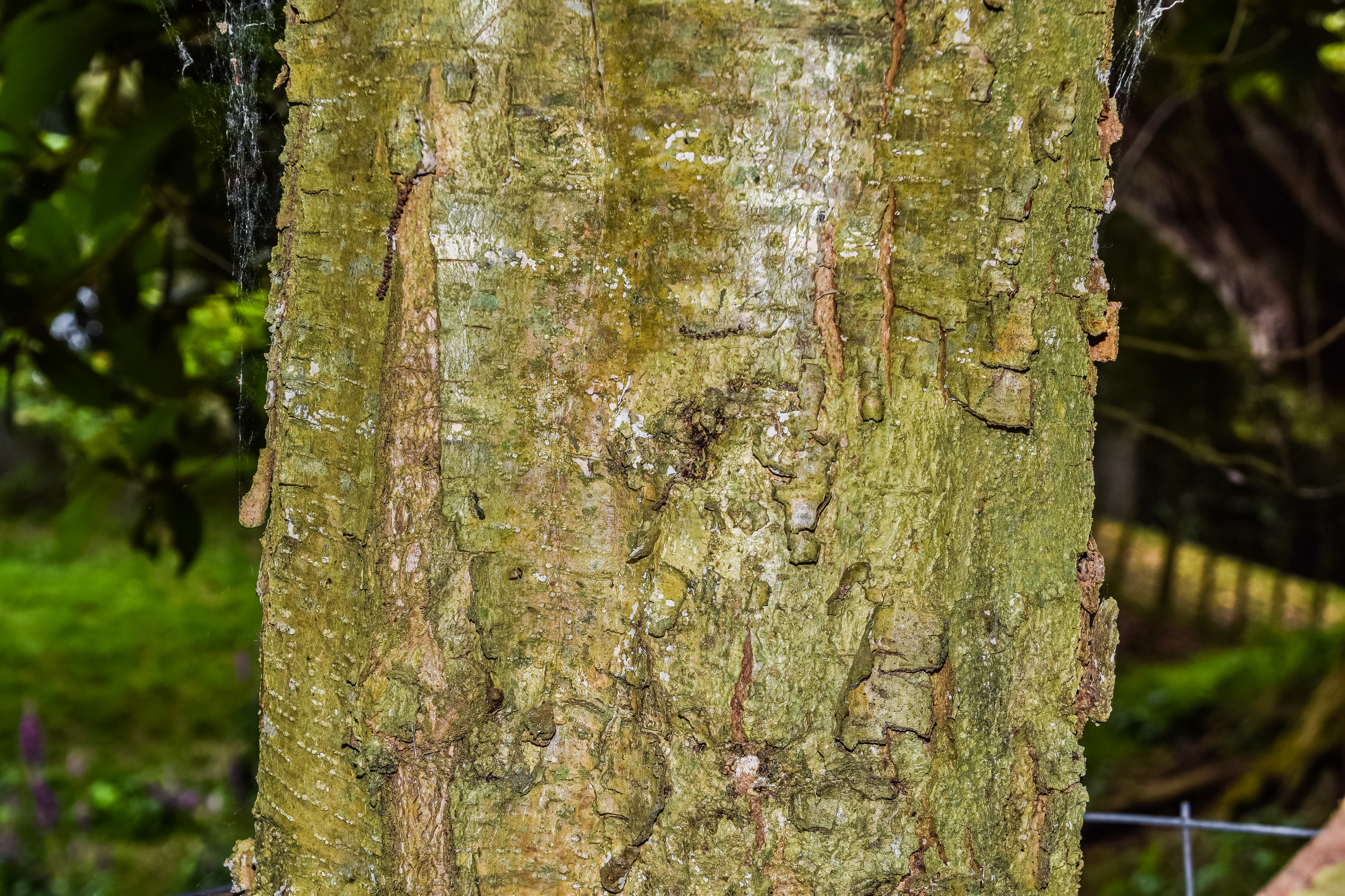 Quercus insignis in Hackfalls Arboretum, Gisborne Region, New Zealand